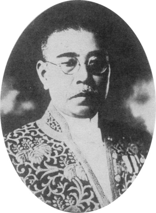 Mutō Torata, 9th director of the Fifth Higher School.